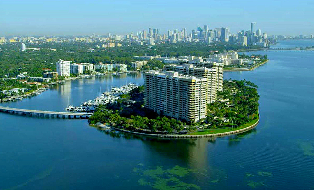 Grove Isle is a 20-acre man made island lying off the North East coast of Miami's Coconut Grove neighbourhood. Downtown Miami is seen in the background.